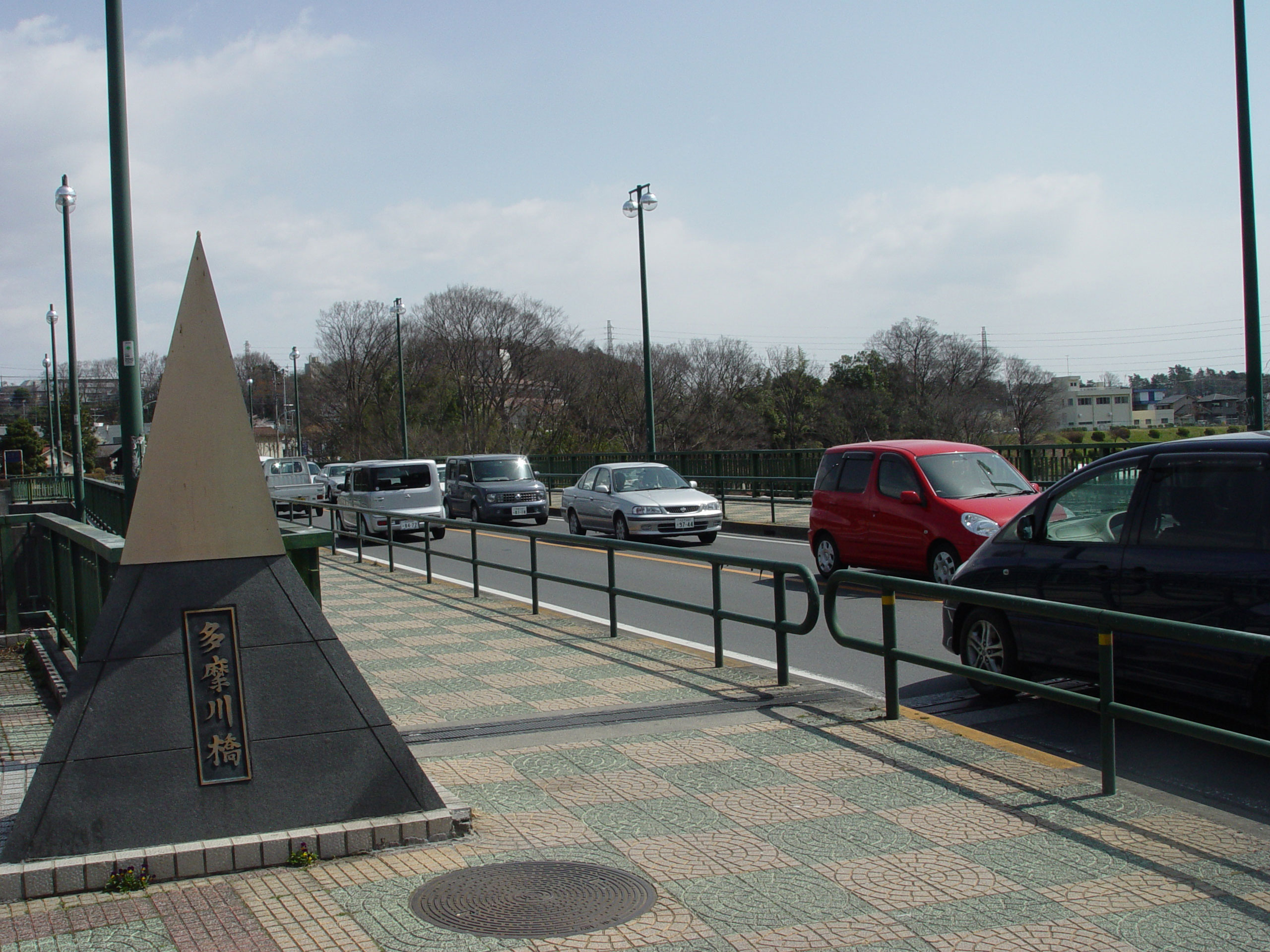 Tamagawa Bridge, Yoshino Kaido, Tokyo prefectural road route 249 ja: 東京都道249号福生羽村線多摩川橋、羽村市、昭島市